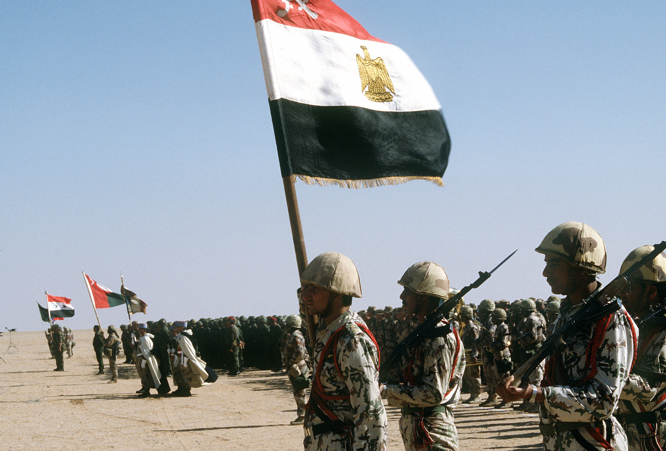 Egyptian troops stand ready for review by King Fahd of Saudi Arabia as they take part in an assembly of international coalition forces united against Saddam Hussein during Operational Desert Storm.